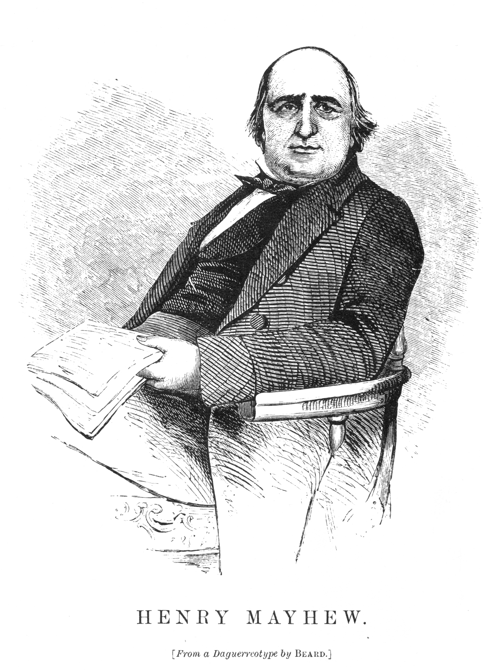 Henry Mayhew Taken from the 1861 edition of London Labour and the London Poor in Post-Proofing at